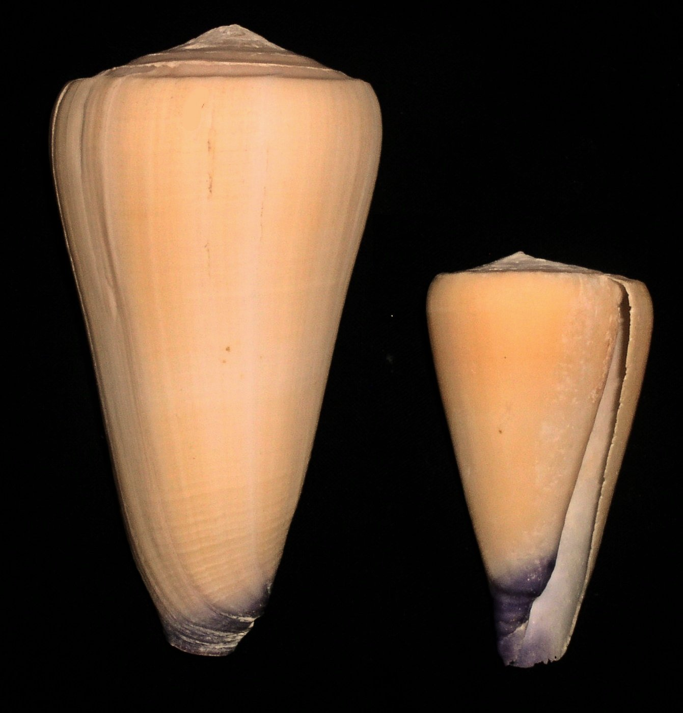 Virgin Cone - Conus virgo